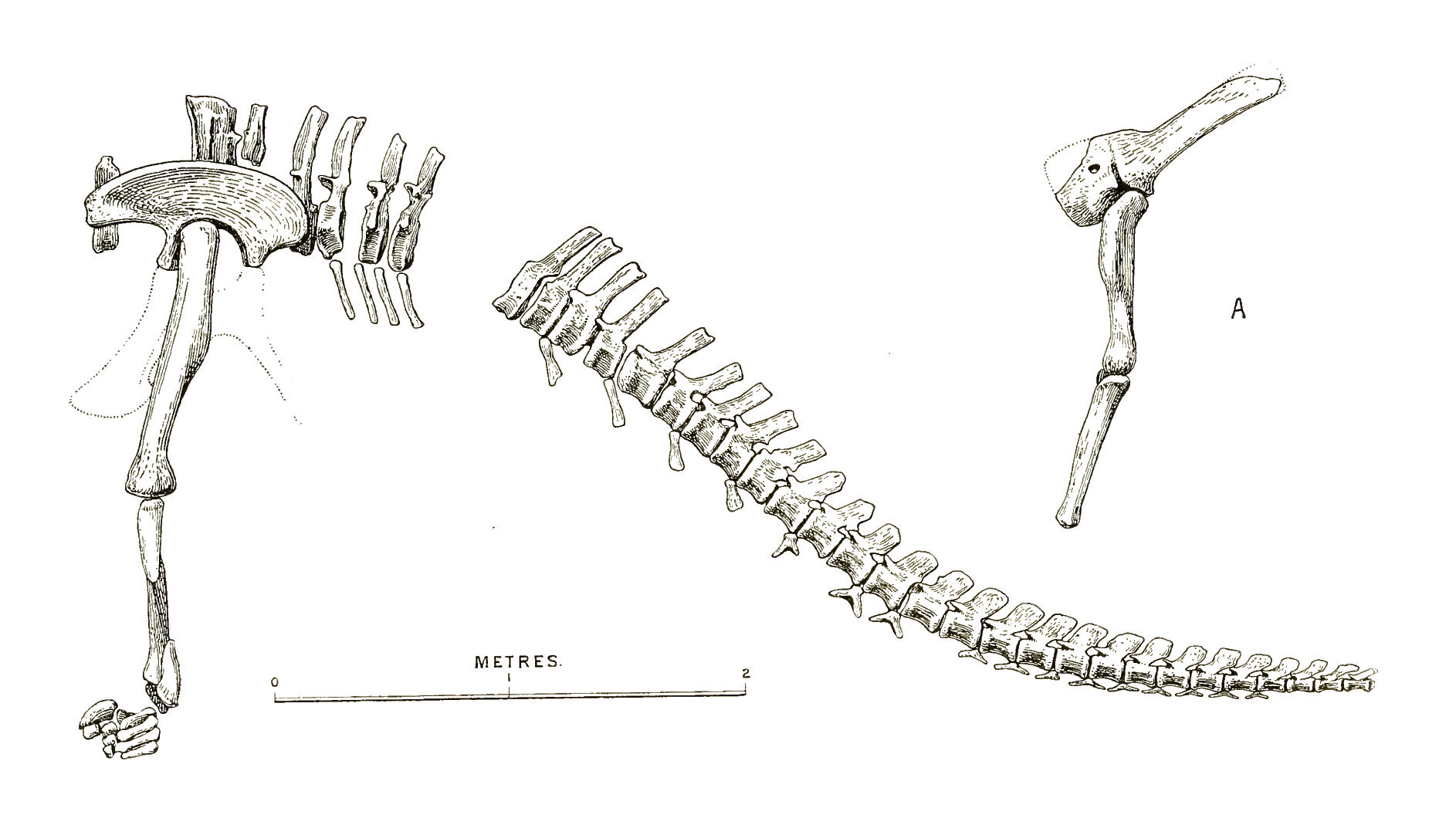 Cetiosaurus leedsi, from Upper Jurassic (Oxford Clay), Peterborough. [Leeds Collection, Brit. Mus. no. R. 3078]. General view of tail and left hind limb, the pubis and ischium being added in in dotted outline from another specimen. A. lateral aspect of associated fore limb (right side, but reversed in drawing). About one/thirtieth nat. size.